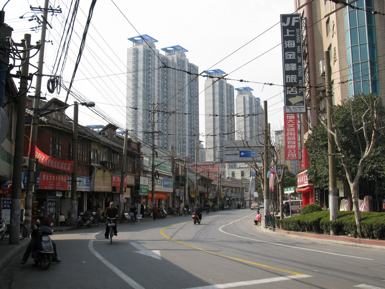 Zhonghua Road Dongjiadu Road, Xiaonanmen